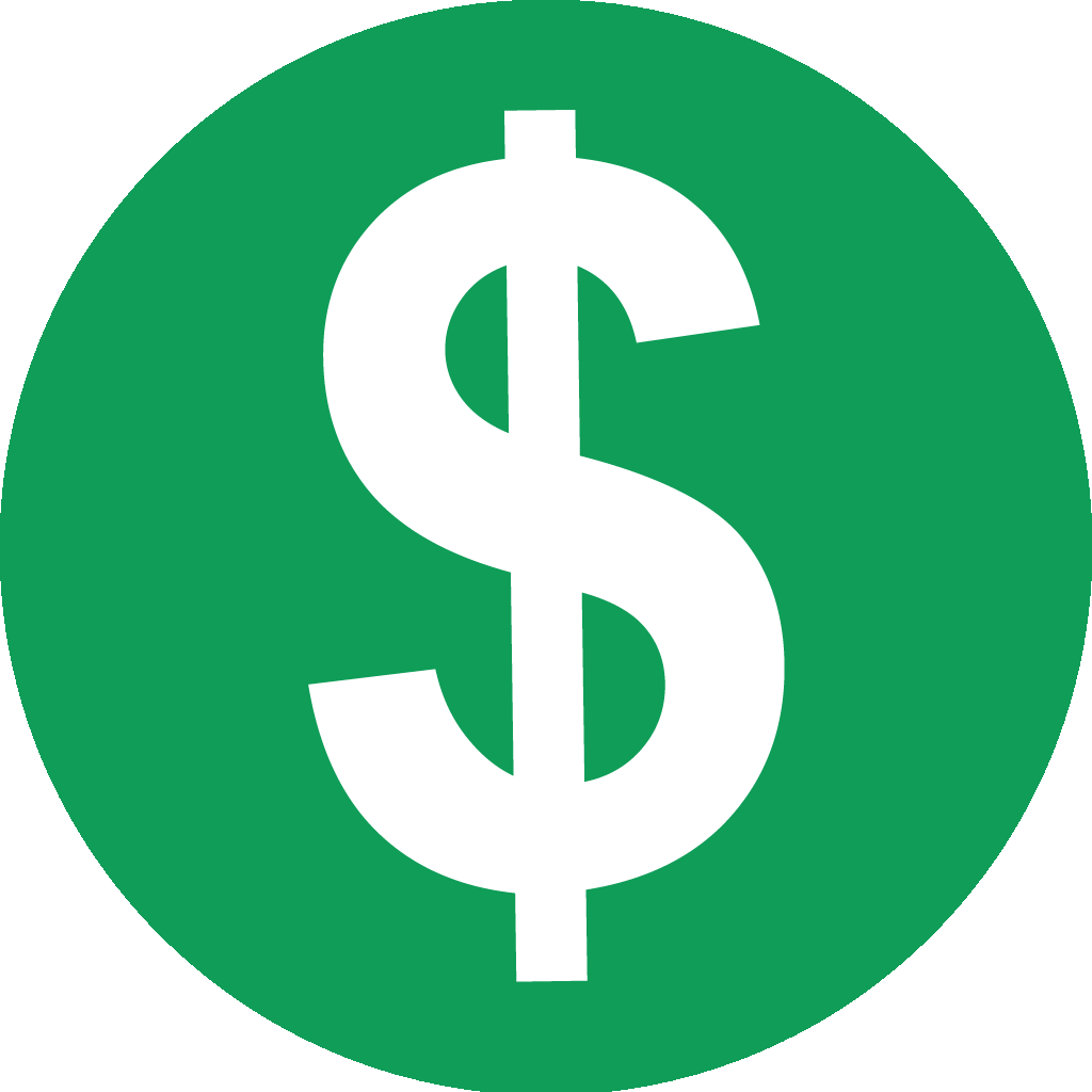 YouTube Video is monetized and sharing video revenue with another account.